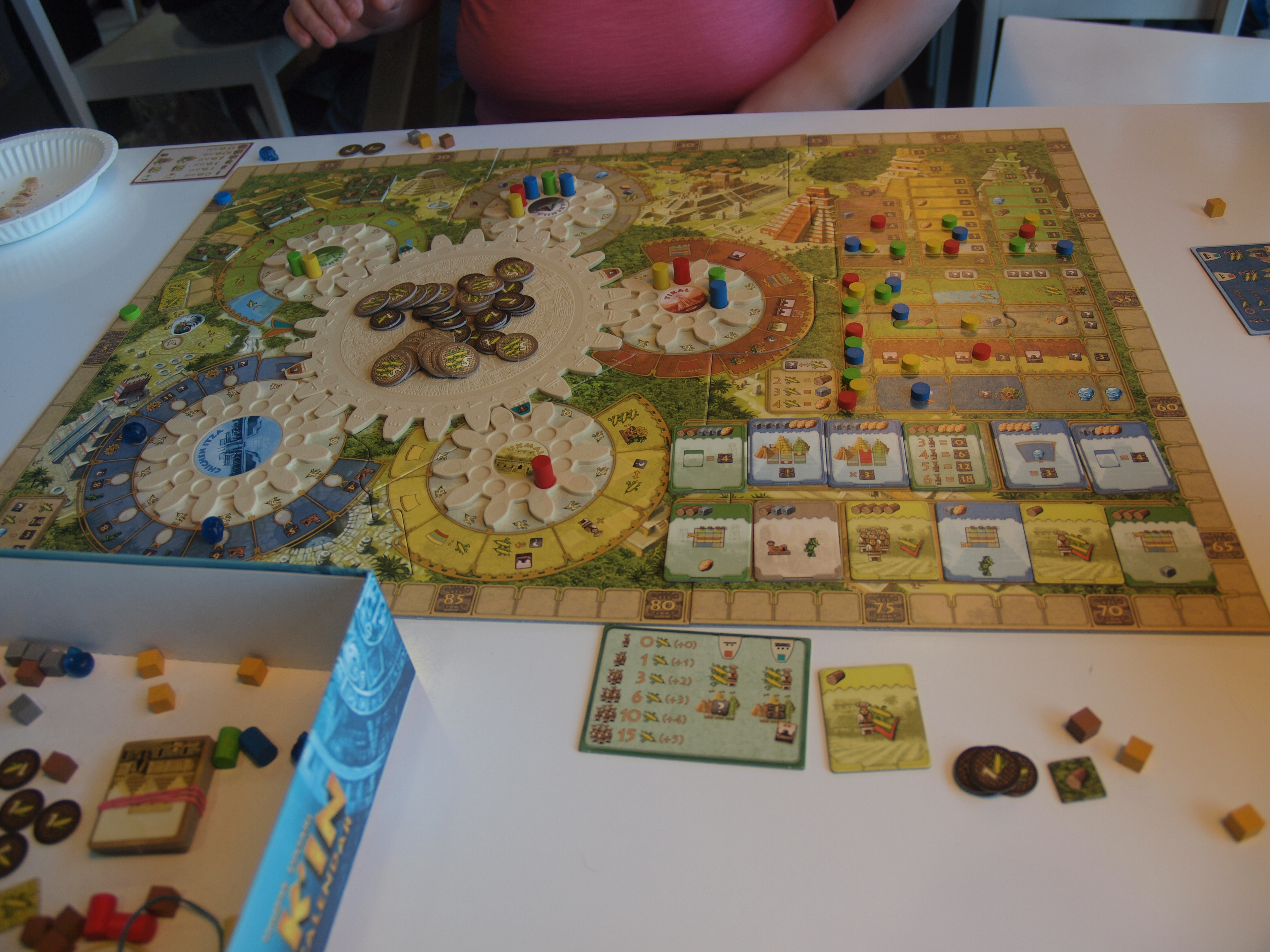 A game of Tzolk'in being played at a board game event in Espoo, Uusimaa, Finland.